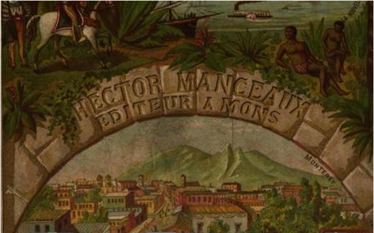 Ditail of the front cover of the book: I. Le nord du Mexique. II. De la Nouvelle Orléans à la Havane by Albert Lancaster Published by H. Manceaux, Mons Beligica 1889. Shows the City of Monterrey Mexico an the Saddle Mountain